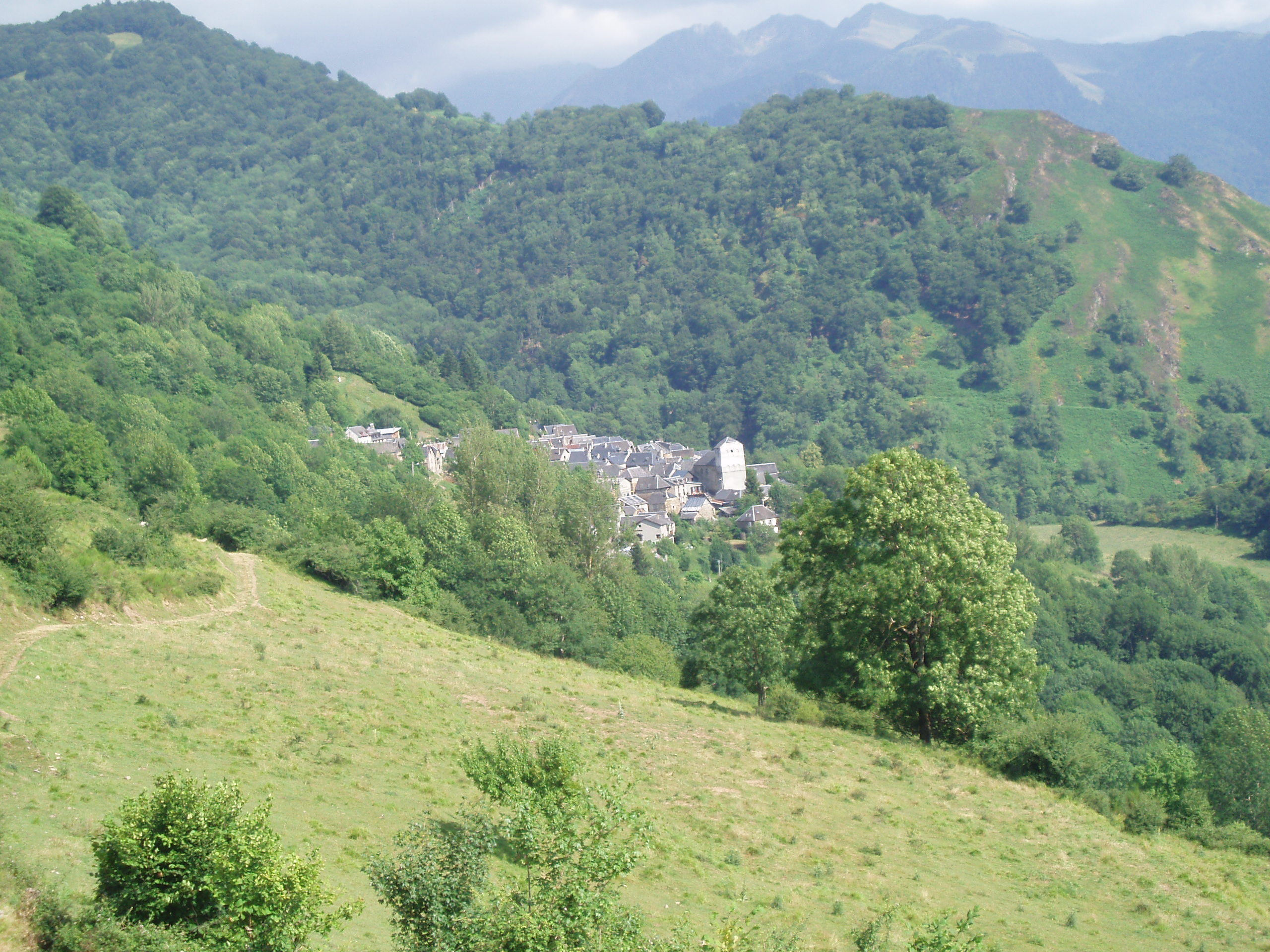 Argut-Dessus, Village seen from the West